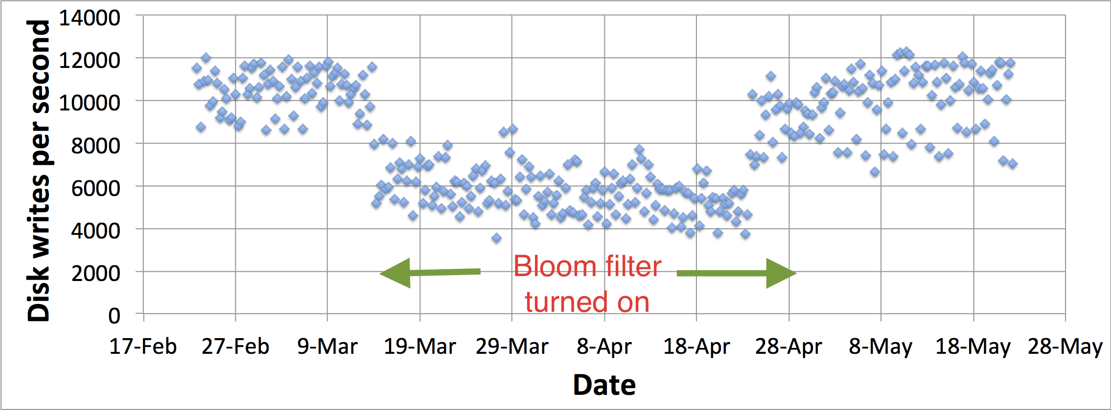 Turning on the Bloom Filter for cache filtering in a content cache decreases the rate of disk writes by nearly one half because objects accessed only once are not cached and hence not written to disk. Paper Citation: "Algorithmic nuggets in content delivery", Bruce M. Maggs and Ramesh K. Sitaraman, ACM SIGCOMM Computer Communication Review (CCR), 15 pages, July 2015.